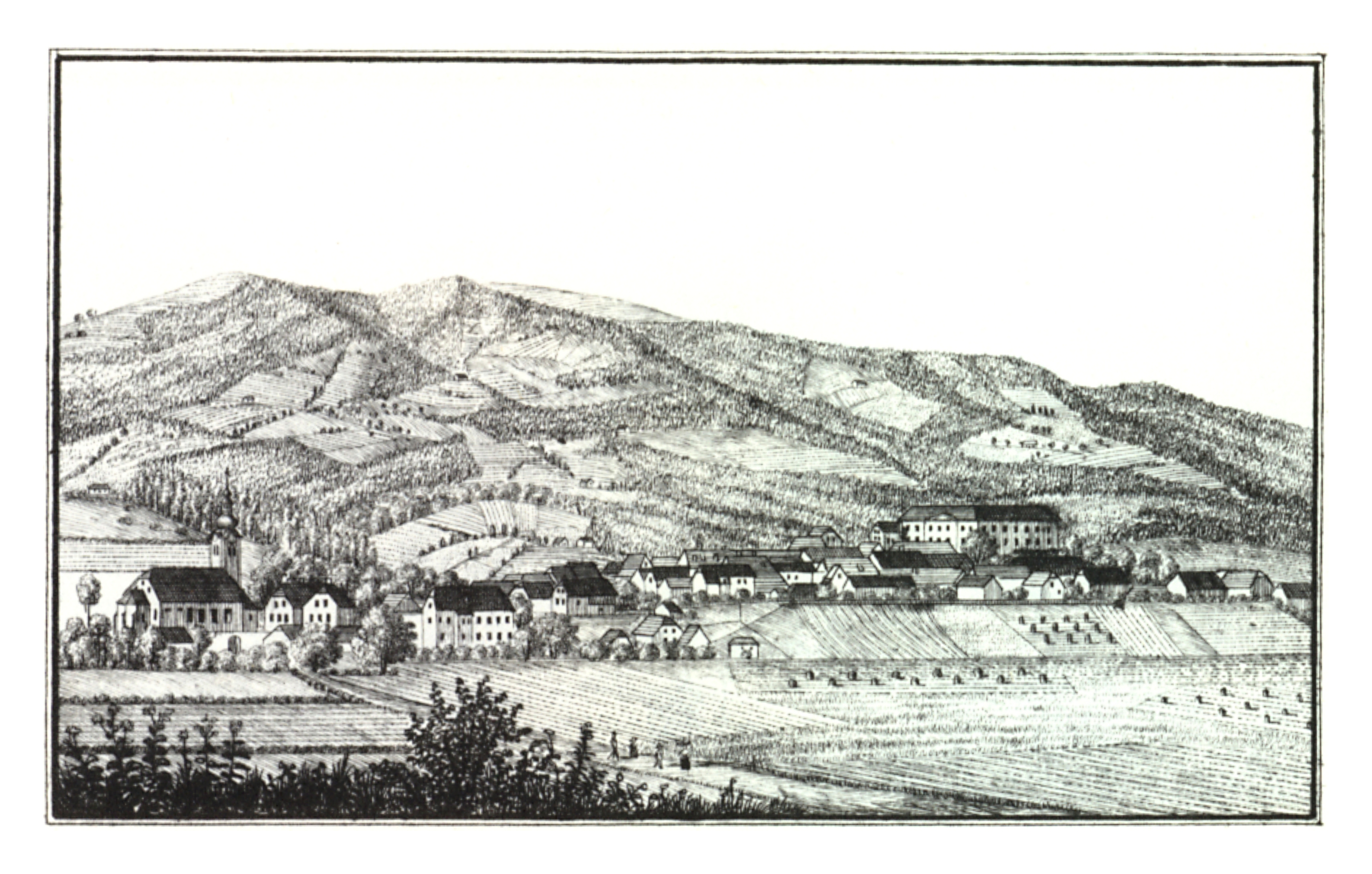 J. F. Kaiser - lithographirte Ansichten der Steyermärkischen Städte, Märkte und Schlösser Graz, 1825 Scanprojekt Community Projektbudget 2012 This scan or this PDF-file was created within the GLAM-project Bookscanning, supported by Wikimedia Germany and Wikimedia Austria as a part of the community-project to capture books, documents and pictures which are not eligible to copyright or for which the copyright has expired. This document describes or depicts an object which is located in Austria today. Send requests for uncompressed scans to Hubertl. This work is in the public domain in its country of origin and other countries and areas where the copyright term is the author's life plus 100 years or less. You must also include a United States public domain tag to indicate why this work is in the public domain in the United States. This file has been identified as being free of known restrictions under copyright law, including all related and neighboring rights.